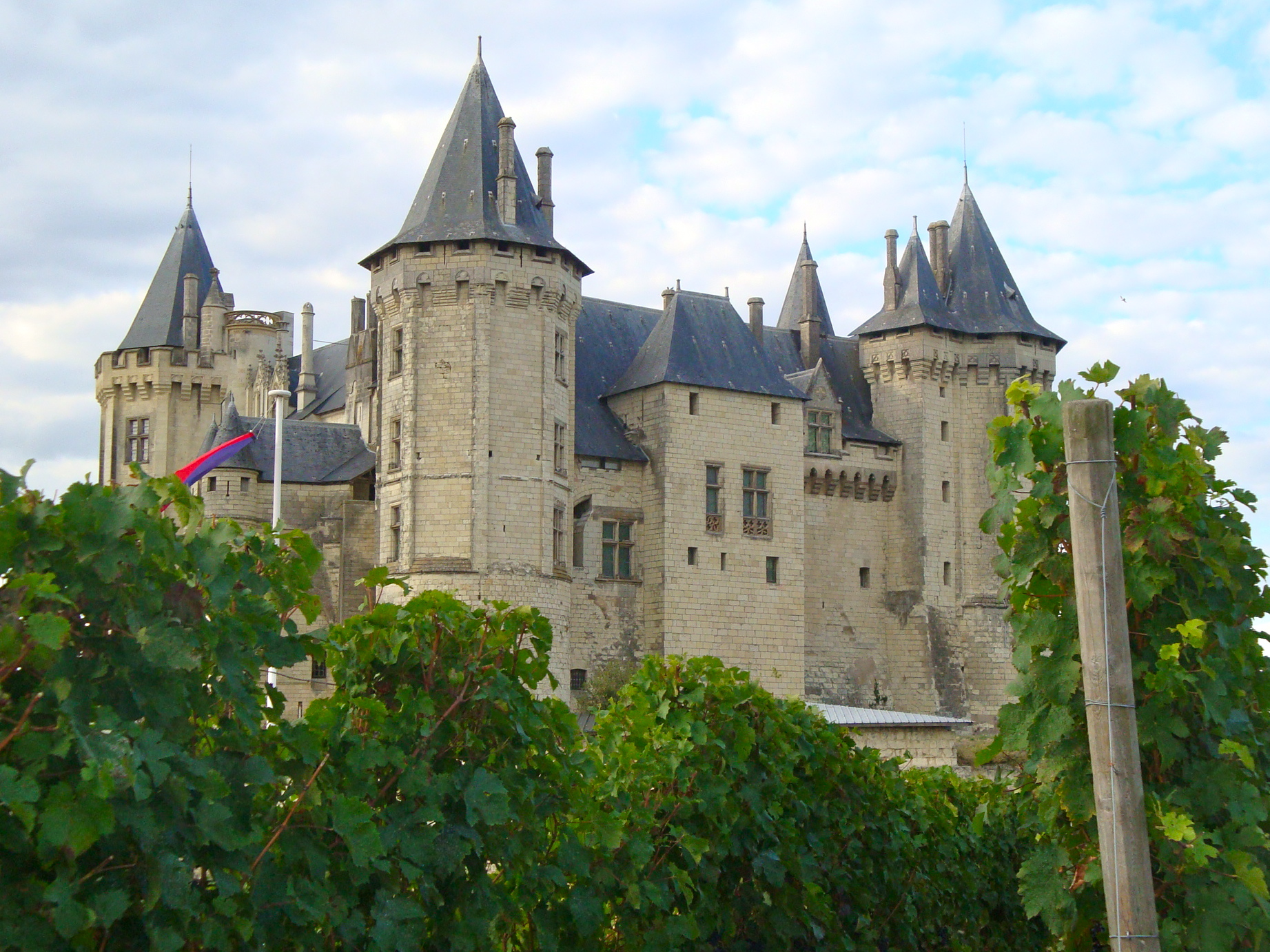 A view of the chateau from the vineyard below, sloping down towards the Loire River.